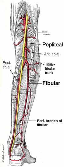 Popliteal artery branches from posterior labeled. Labeled version of Grey's image